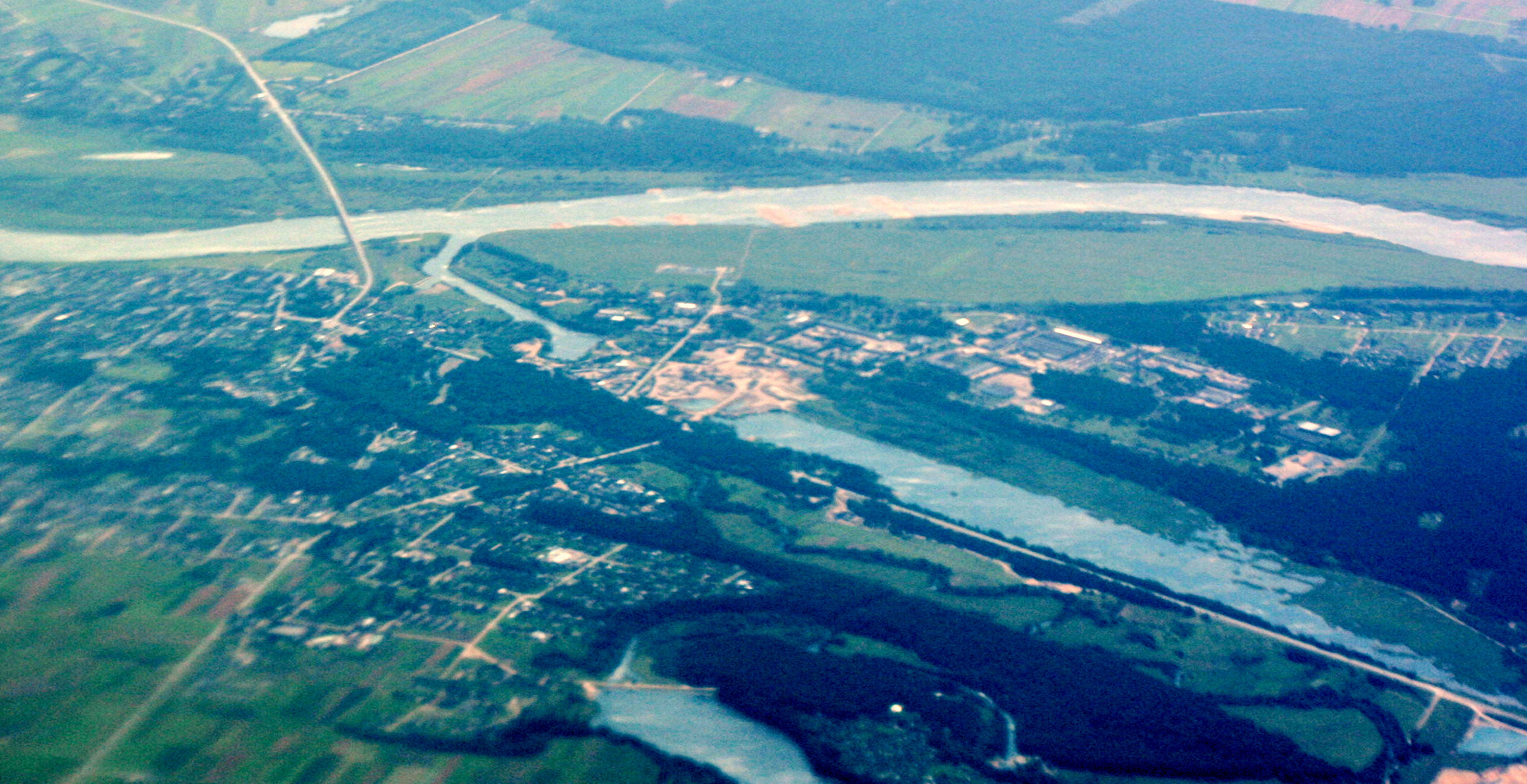 Jurbarkas, aereal view